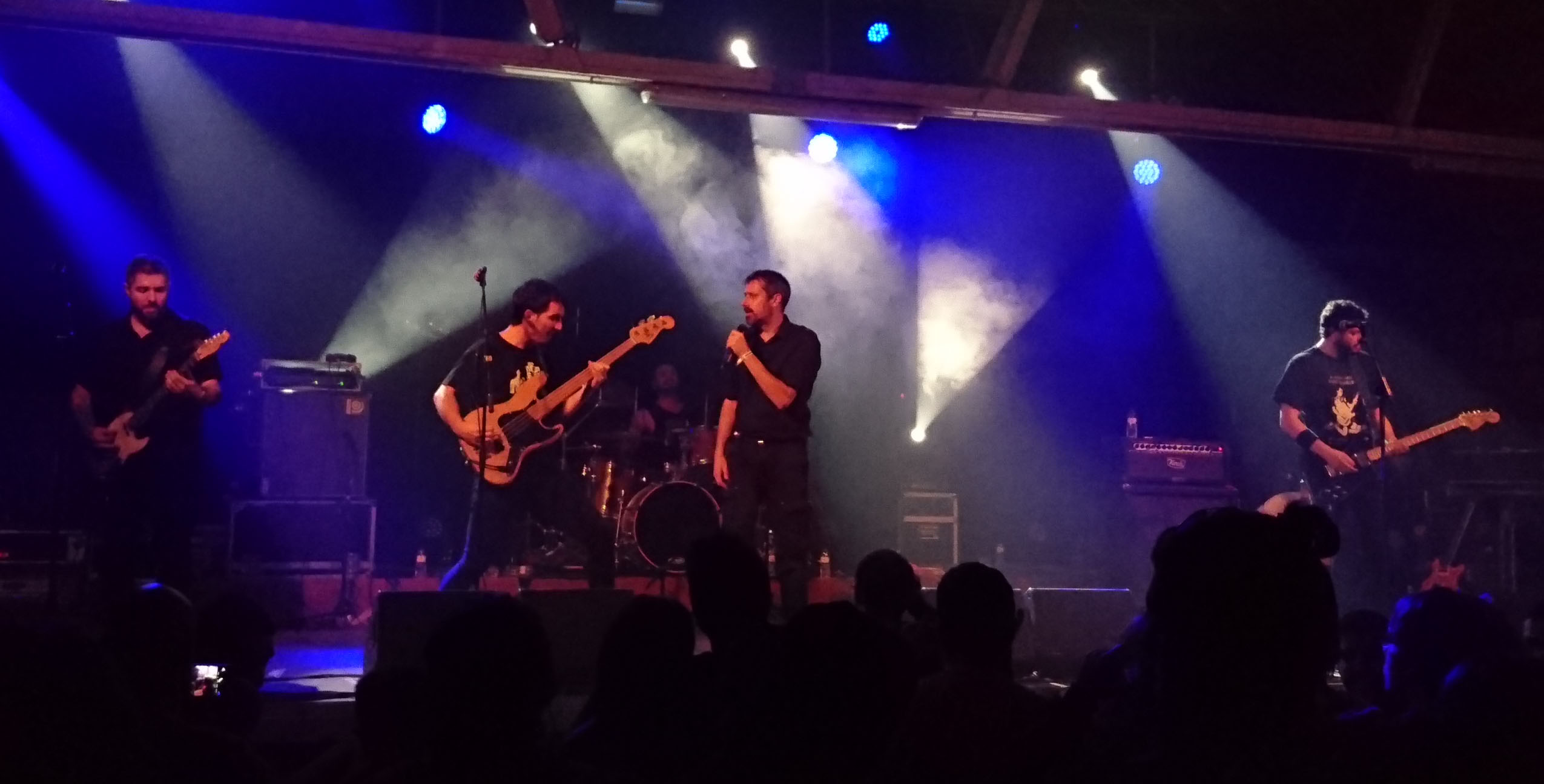 Concert of the Catalan music group Revolta 21 in the 2015 Castanyada Rock, celebrated in Piera (Anoia, Catalan countries).